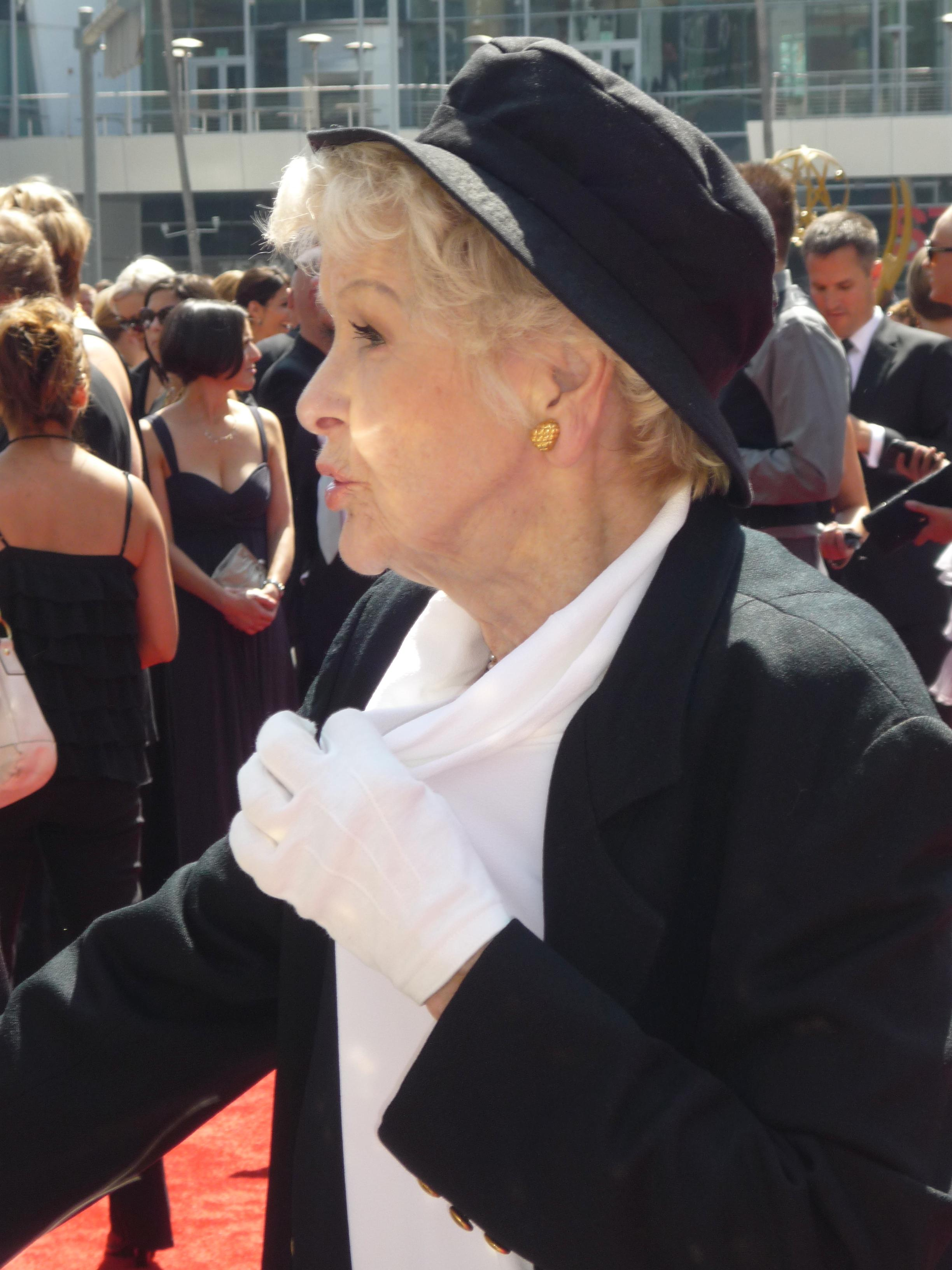 Elaine Stritch at the Creative Arts Emmys on Saturday (Sept. 12) night.